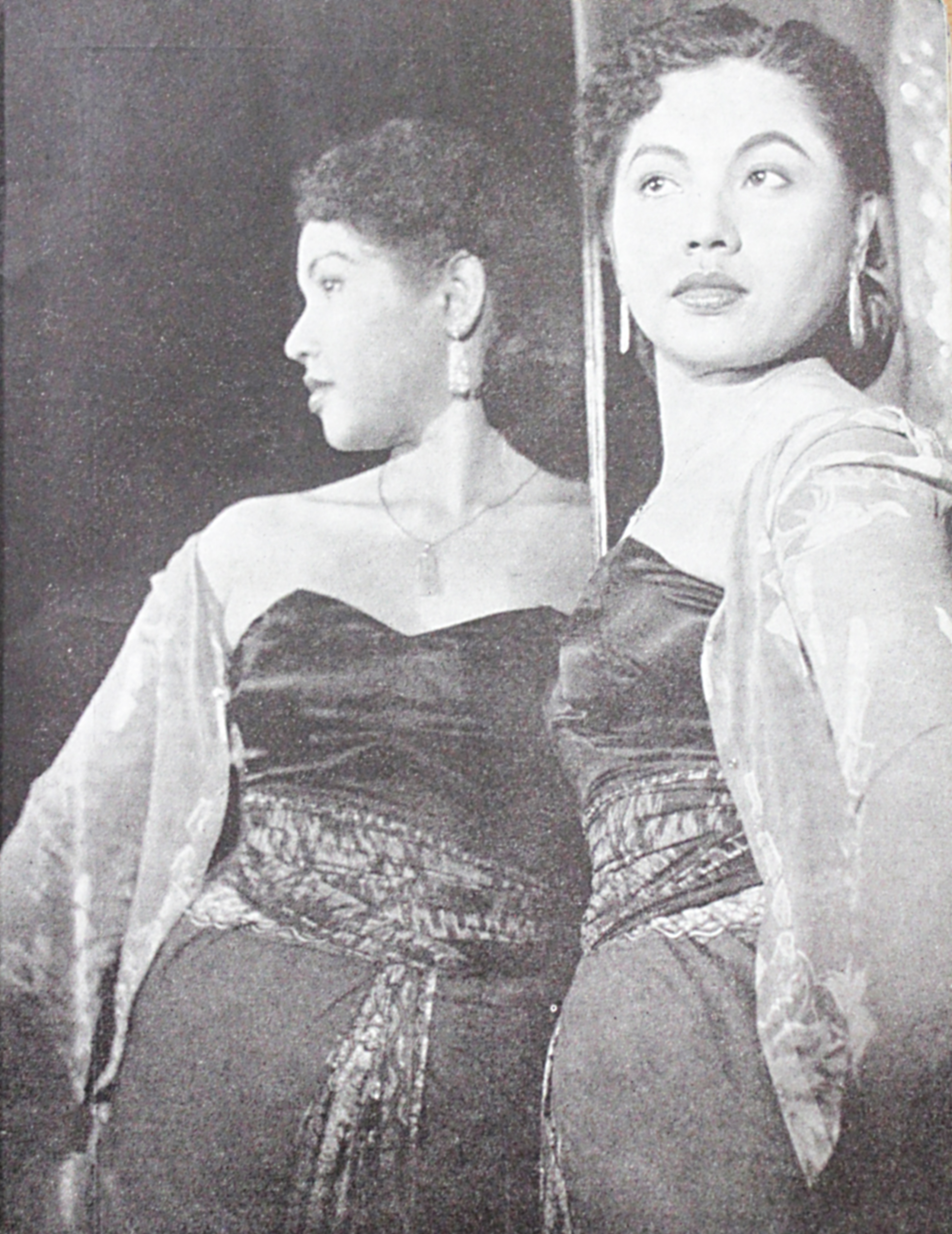 Indonesian actress Dhalia in a promotional still for Lewat Djam Malam